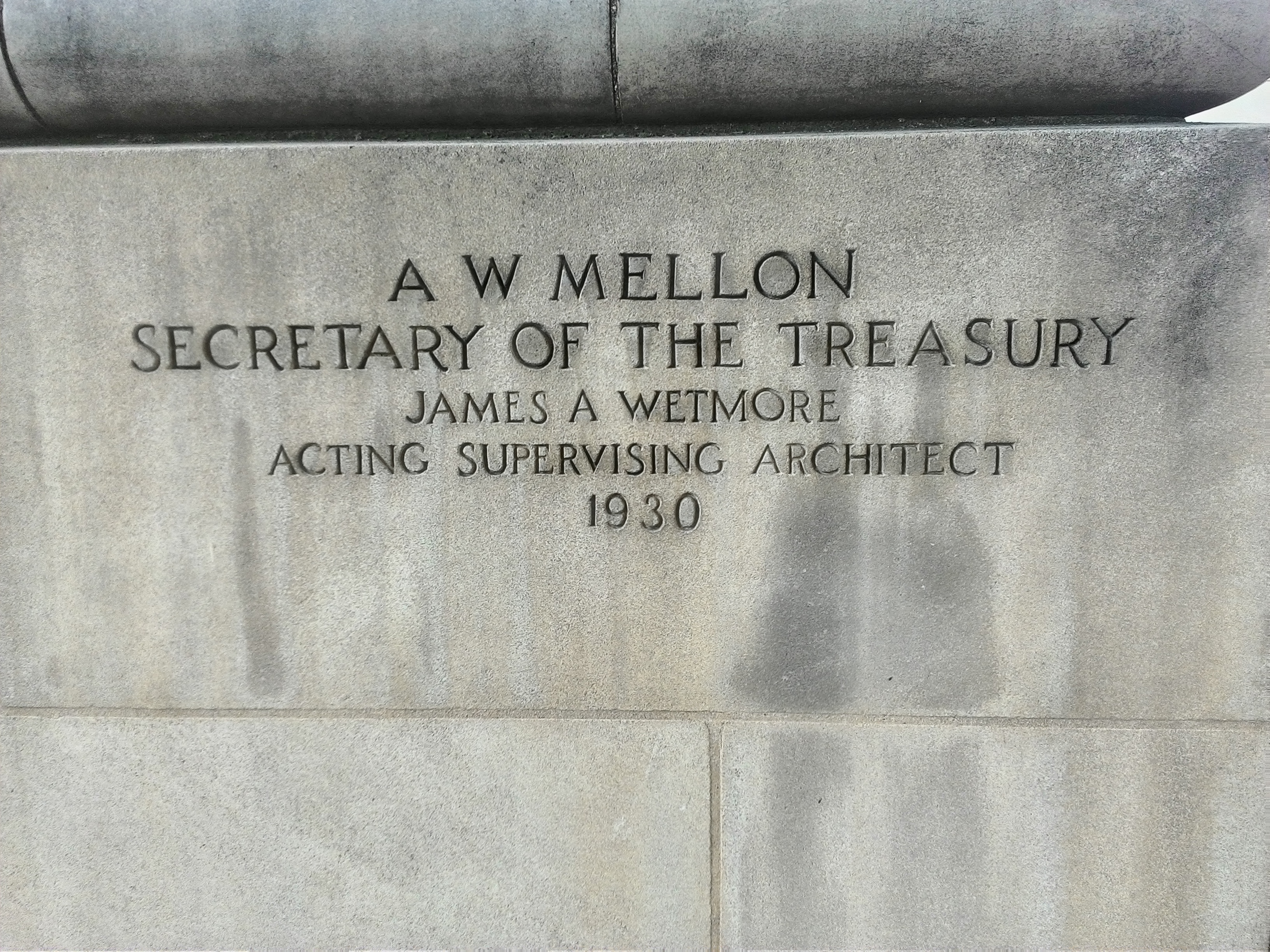 Cornerstone of the United States Post Office and Courthouse, Goodwin St, Prescott, Arizona